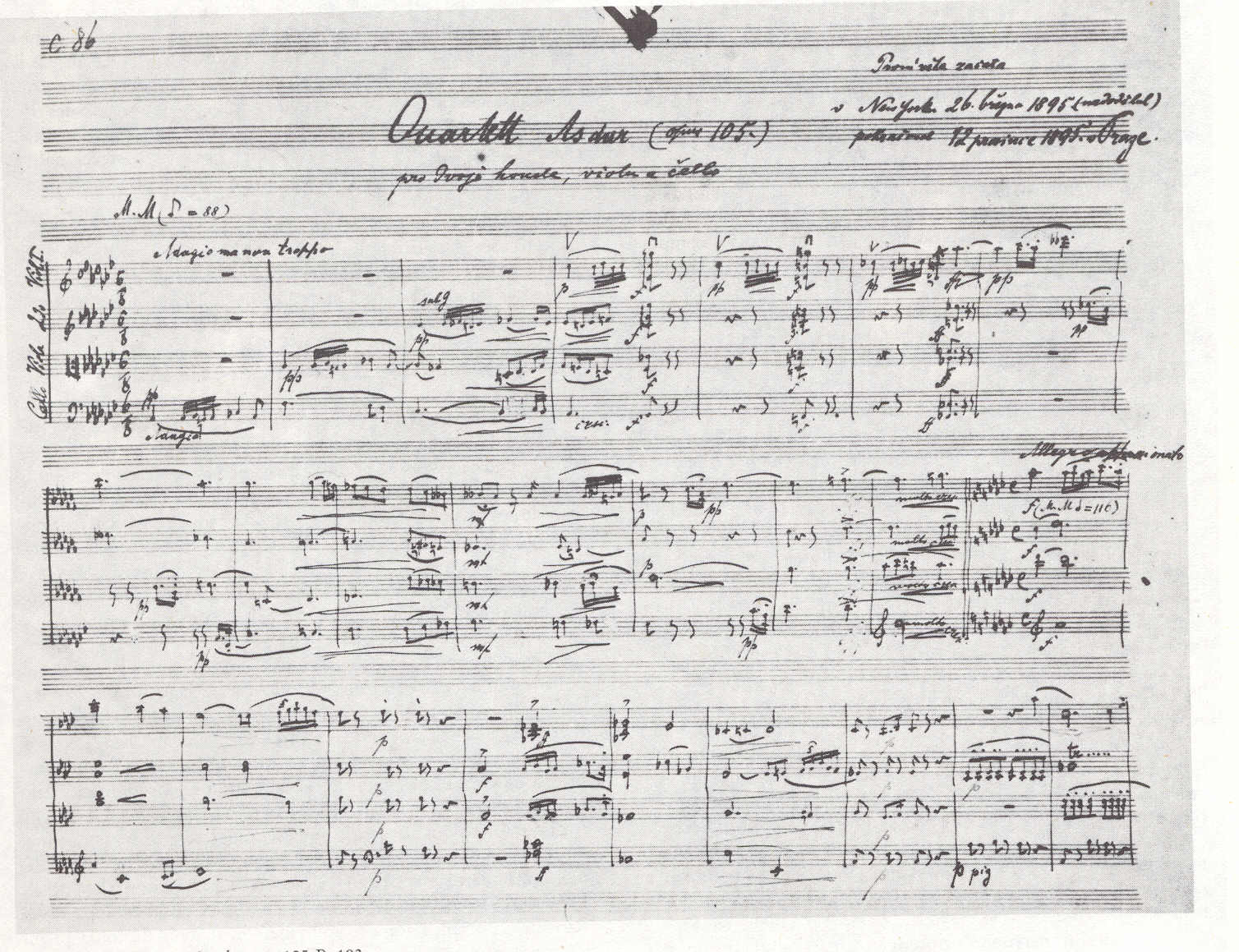 Manuscrip kwartet 14